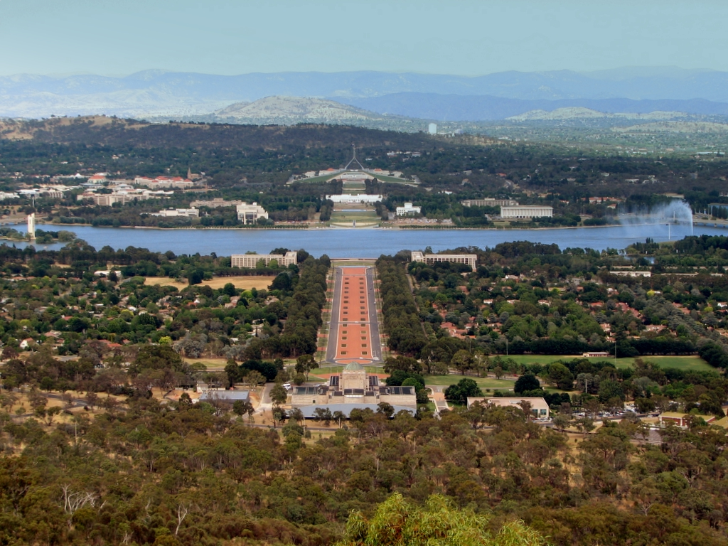 View of Canberra from Mount Ainslie